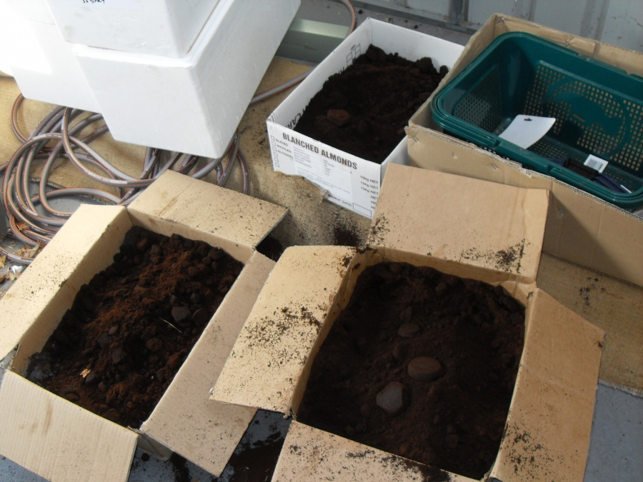 A large supply of coffee grounds being dried out in cardboard boxes.